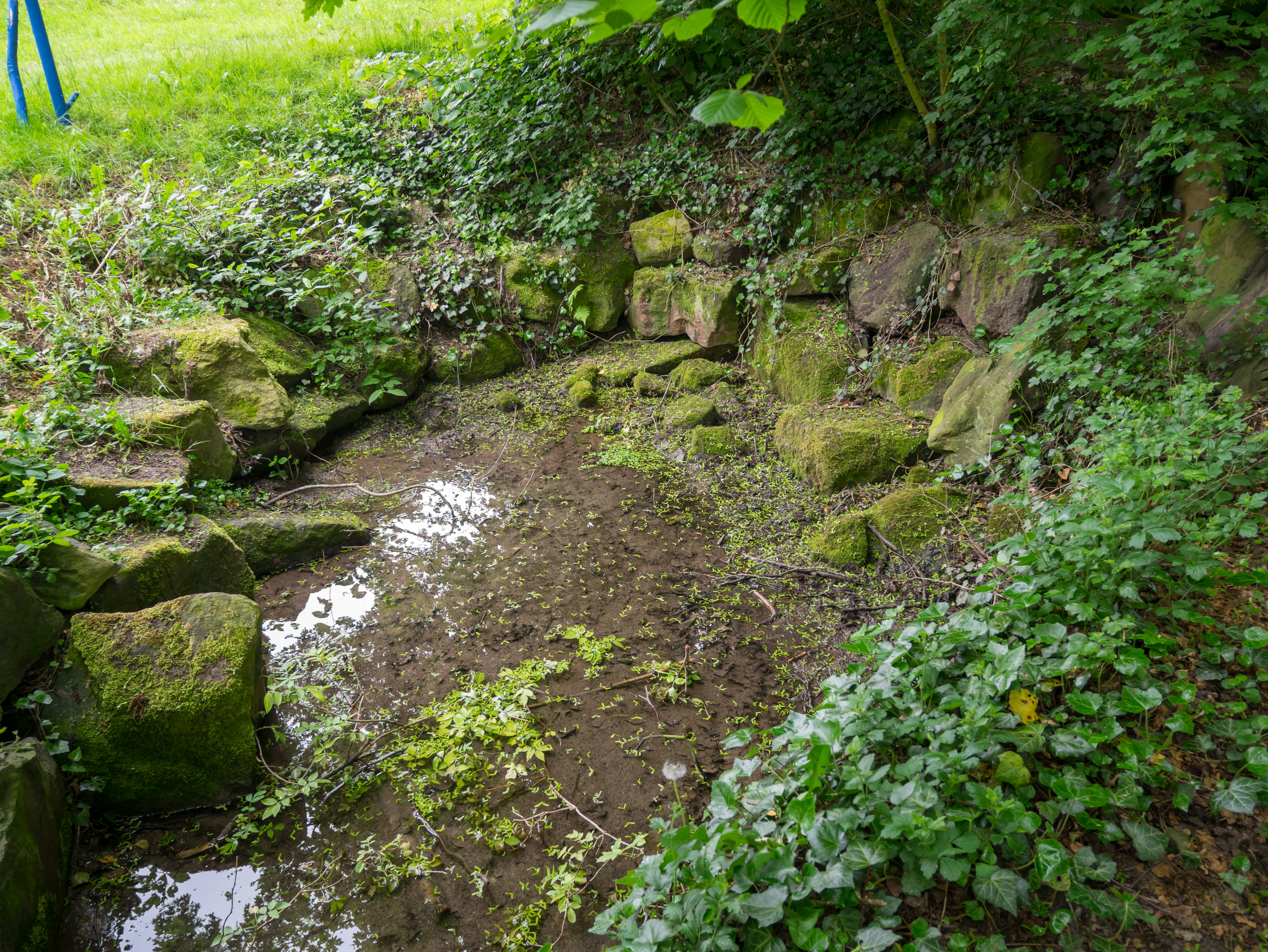 Source of the Hase river near Wellingholzhausen, Landkreis Osnabrück, Deutschland